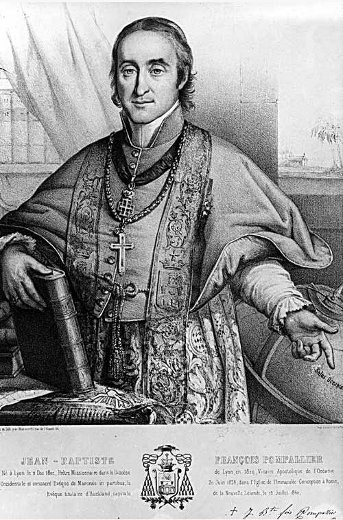 Jean Baptiste Pompallier, first Bishop of Auckland